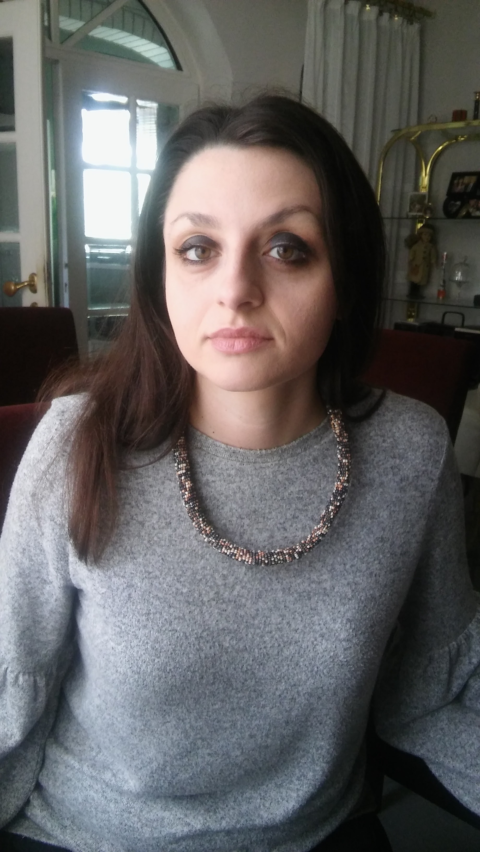 Ana Vuckovic Српски (ћирилица): Ана Вучковић